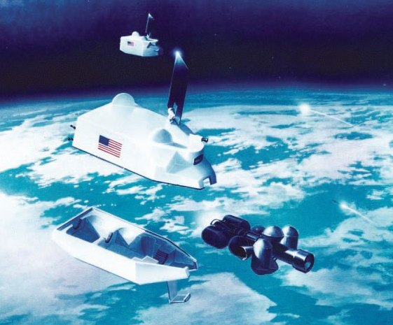 This image shows a Brilliant Pebble anti-ballistic missile interceptor emerging from its protective "life jacket", the white shell. This illustration shows an earlier model of the interceptor design with three fuel tanks, later designs had four much larger tanks wrapped around the missile body.